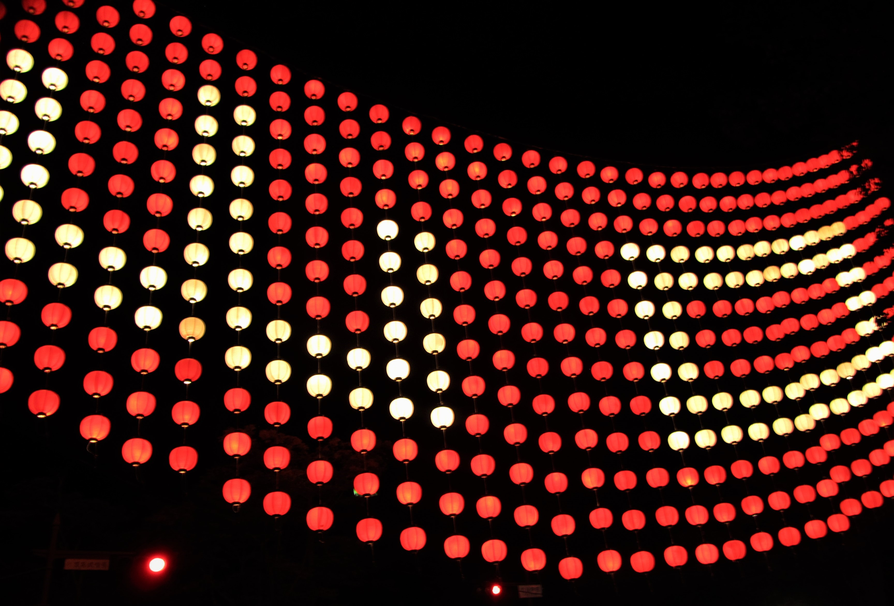 "Yamaguchi" written in Japanese using paper lanterns, during the lantern festival held every August.